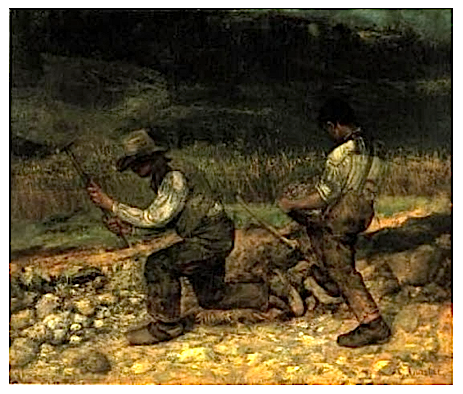 Les Casseurs de pierres, oil on canvas, dim.: 56 x 65 cm. Musée Oskar Reinhart « Am Römerholz » (Winterthour).